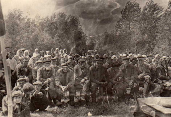 Rural conference. Buguruslan district, Samara province. 1900-1903